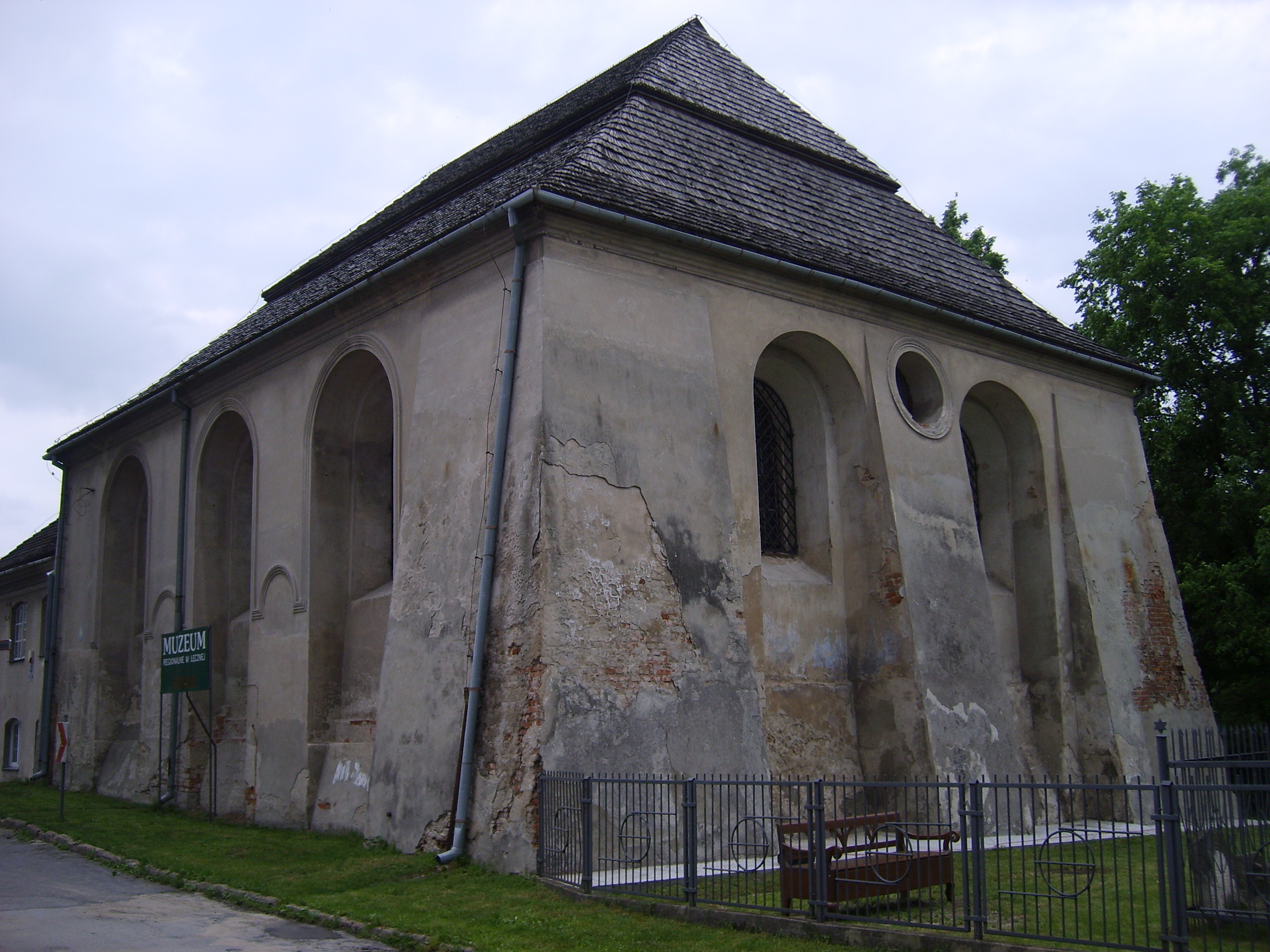 Big Synagogue in Łęczna